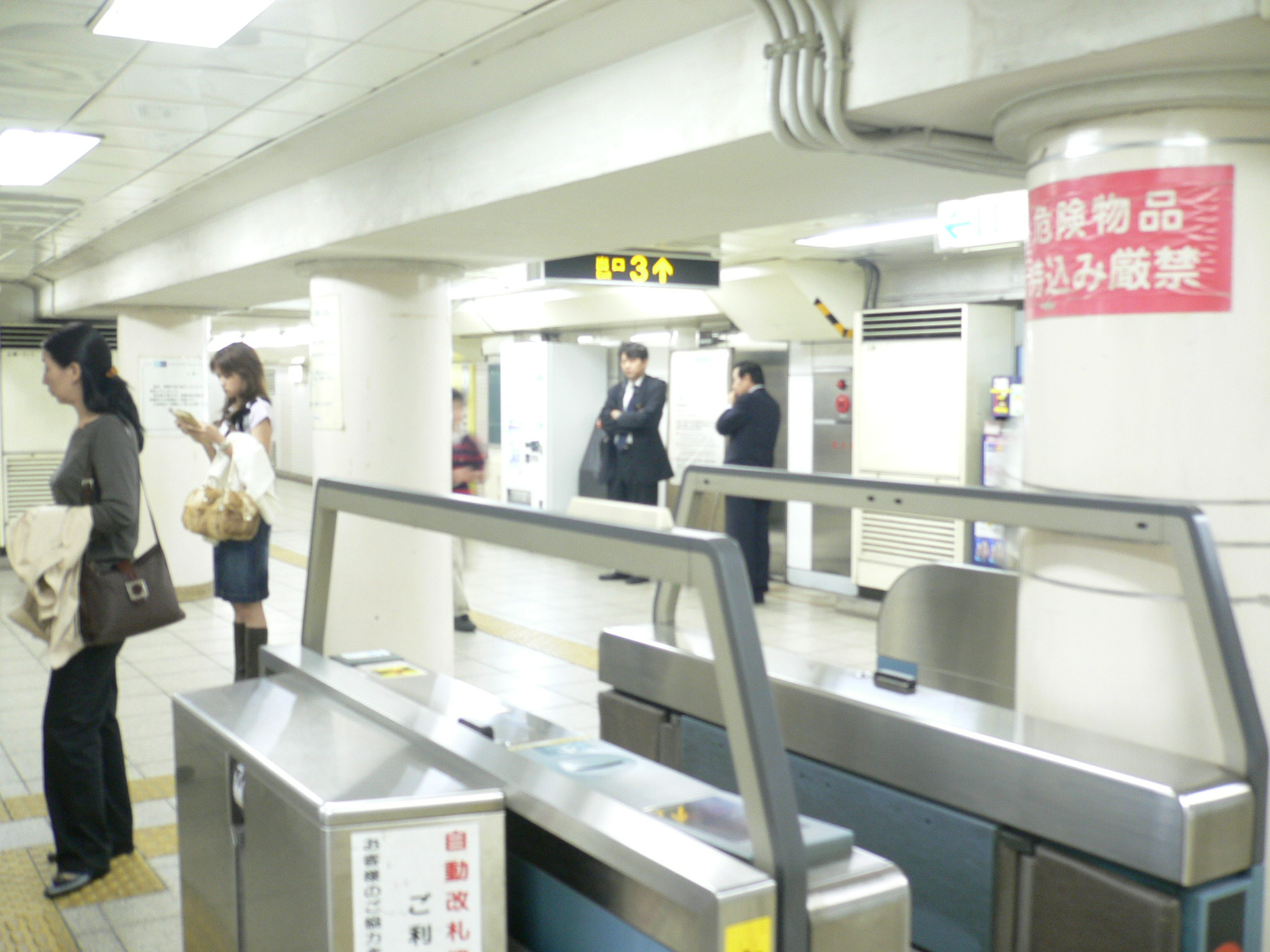 Hirō Station (広尾駅), Minato W, Tokyō M.